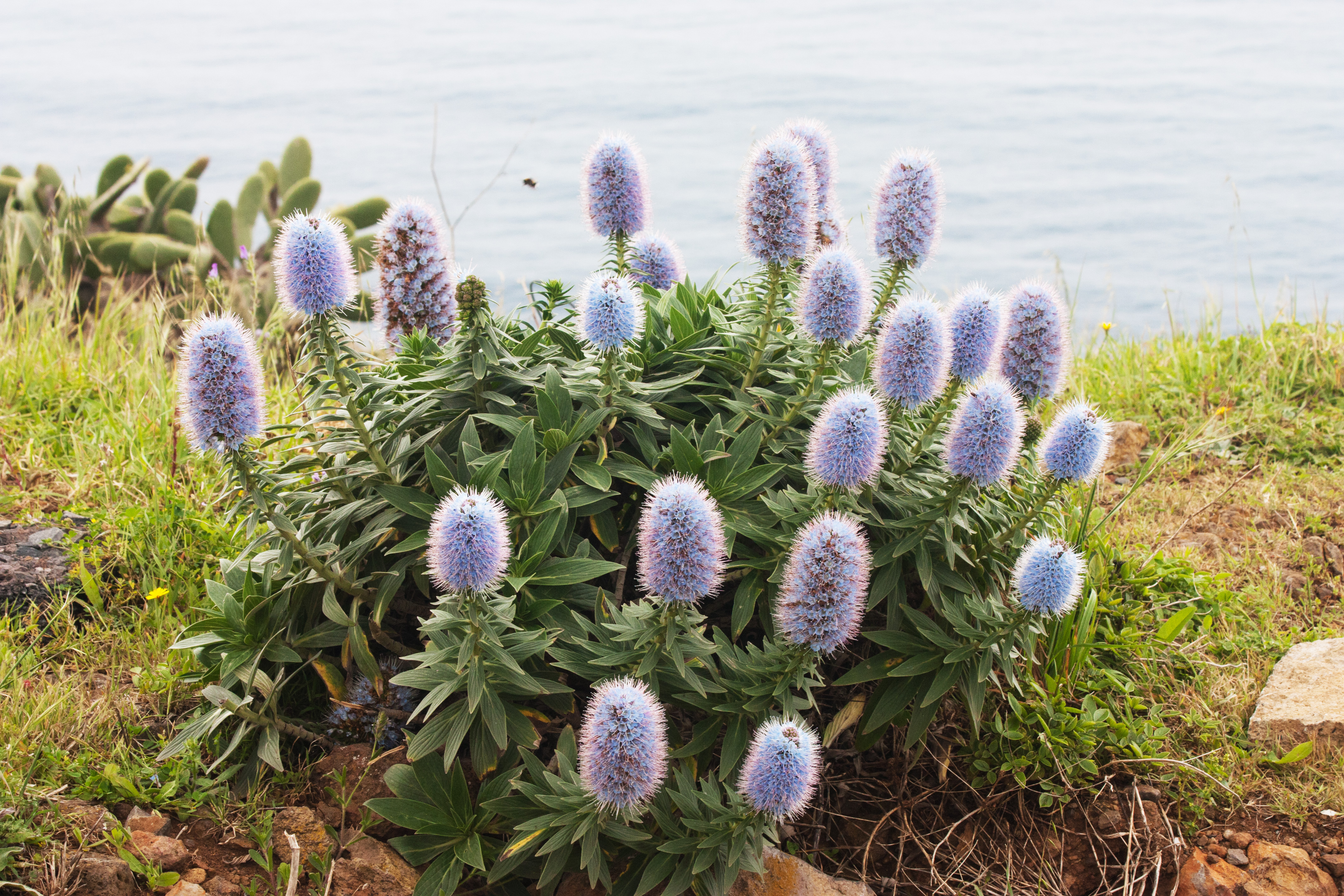 Echium nervosum inear von Ponta do Pargo, Madeira, Portugal